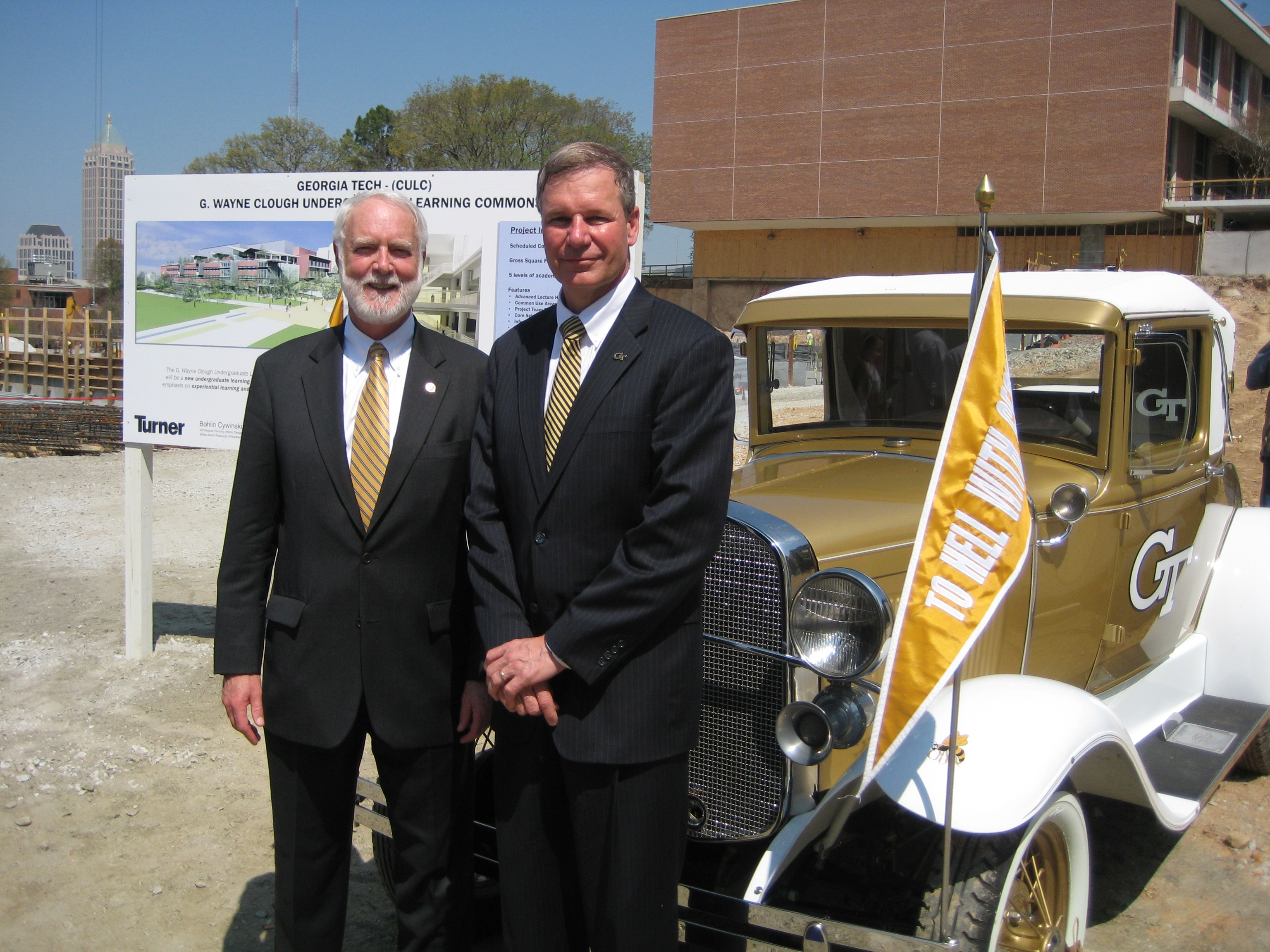 Georgia Tech President Emeritus G. Wayne Clough and current Georgia Tech president G. P. "Bud" Peterson standing in front of the Ramblin' Wreck on the site of the Clough Undergraduate Learning Commons at its groundbreaking ceremony on April 5, 2010.